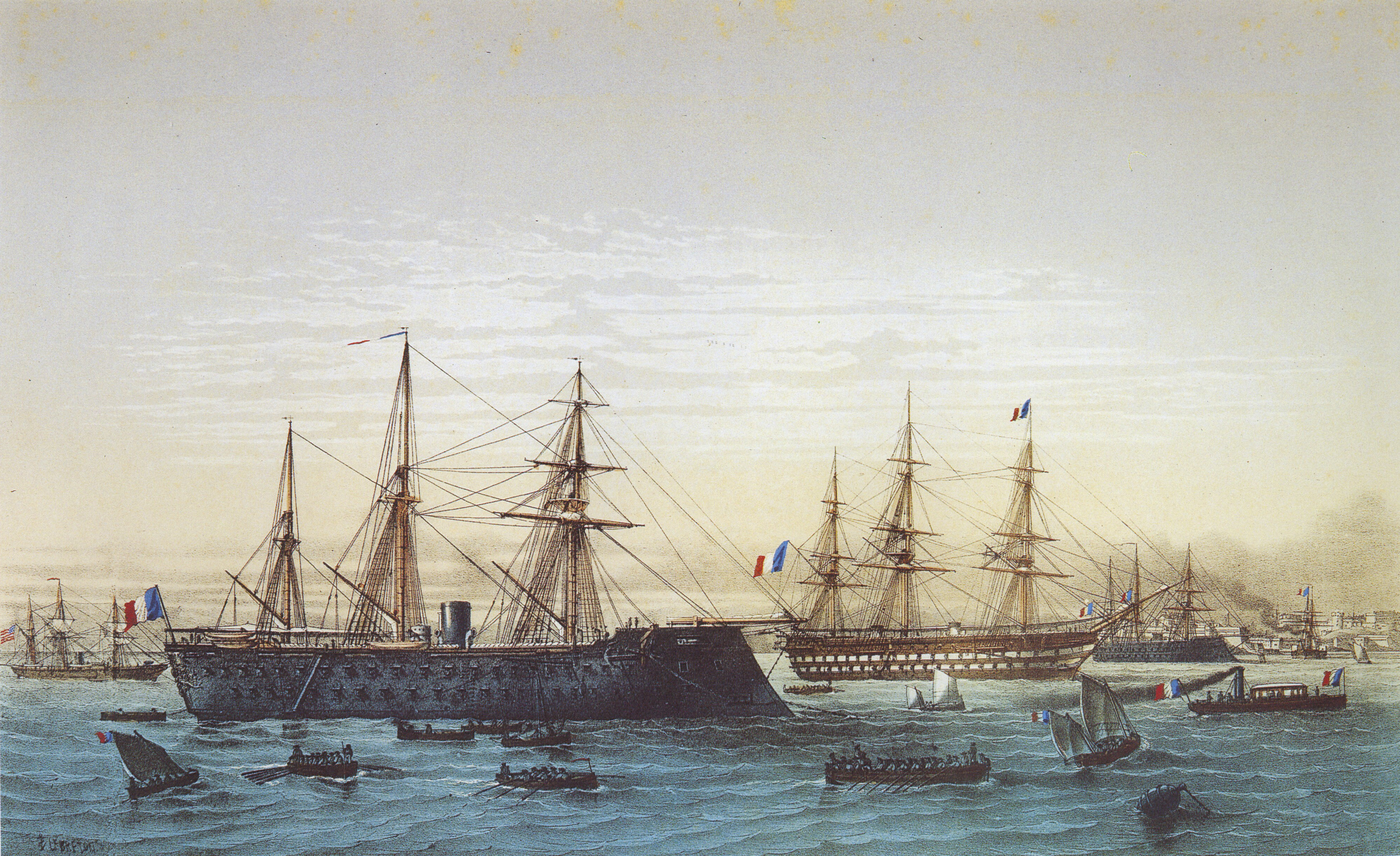 The Magenta in Brest. The Napoléon III ship can be seen in the background